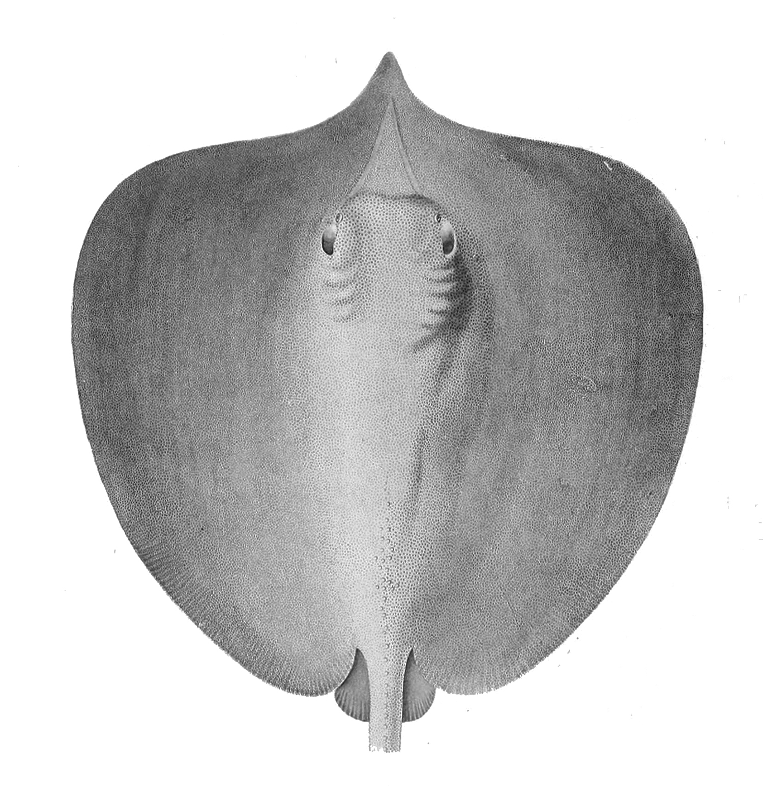 Illustration of Trygon fluviatilis (=Himantura fluviatilis)